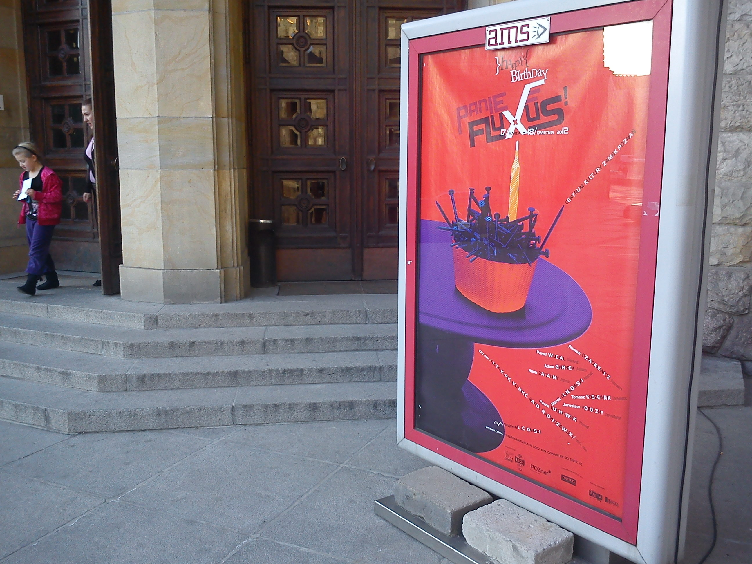 Fluxus Exhibition in Poznań (Imperial Castle). 3/4.2012.